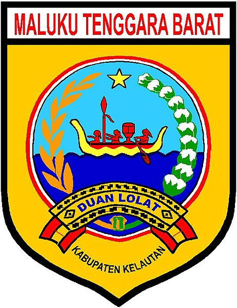 Former logo of Tanimbar Island Regency